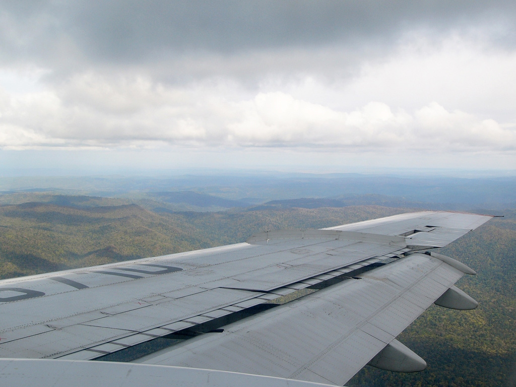 From Sakhalin to Vladivostok.